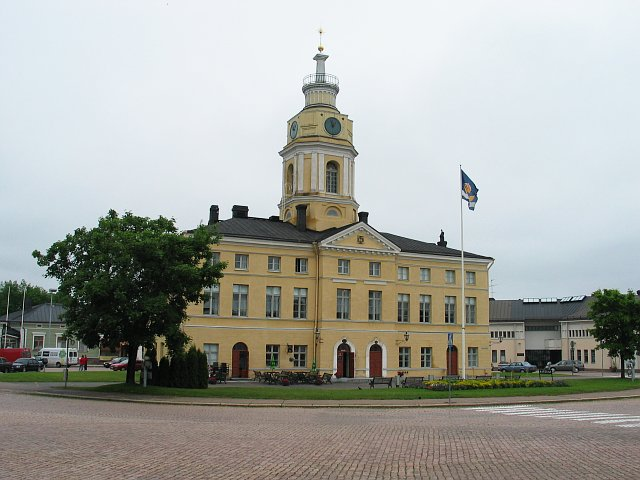 The Raatihuone of Hamina, Finland